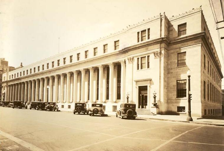 Historic Federal Courthouses Tulsa, Oklahoma U.S. Post Office and Court House (n.d, ca. 1917; 1932) (with extension) Completed in 1917. Extension completed in 1932. Supervising Architect of original building and extension: James A. Wetmore Still in use by the U.S. District Court for the Northern District of Oklahoma, which began meeting here in 1925; the U.S. District Court for the Eastern District of Oklahoma met here until the creation of the Northern District in 1925.